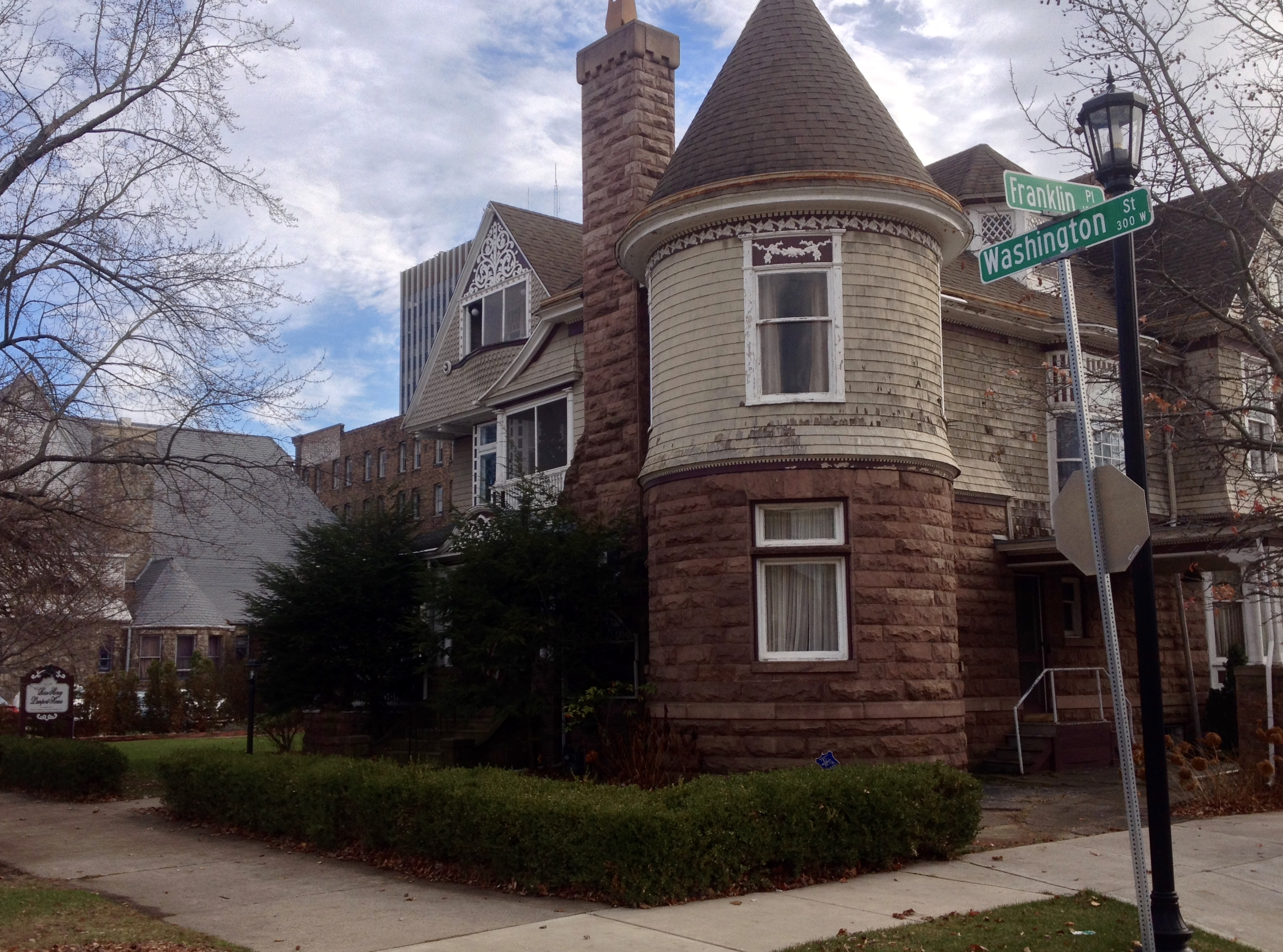 From West Washington Street in South Bend looking southeast towards the Rose-Morey-Lamport House.